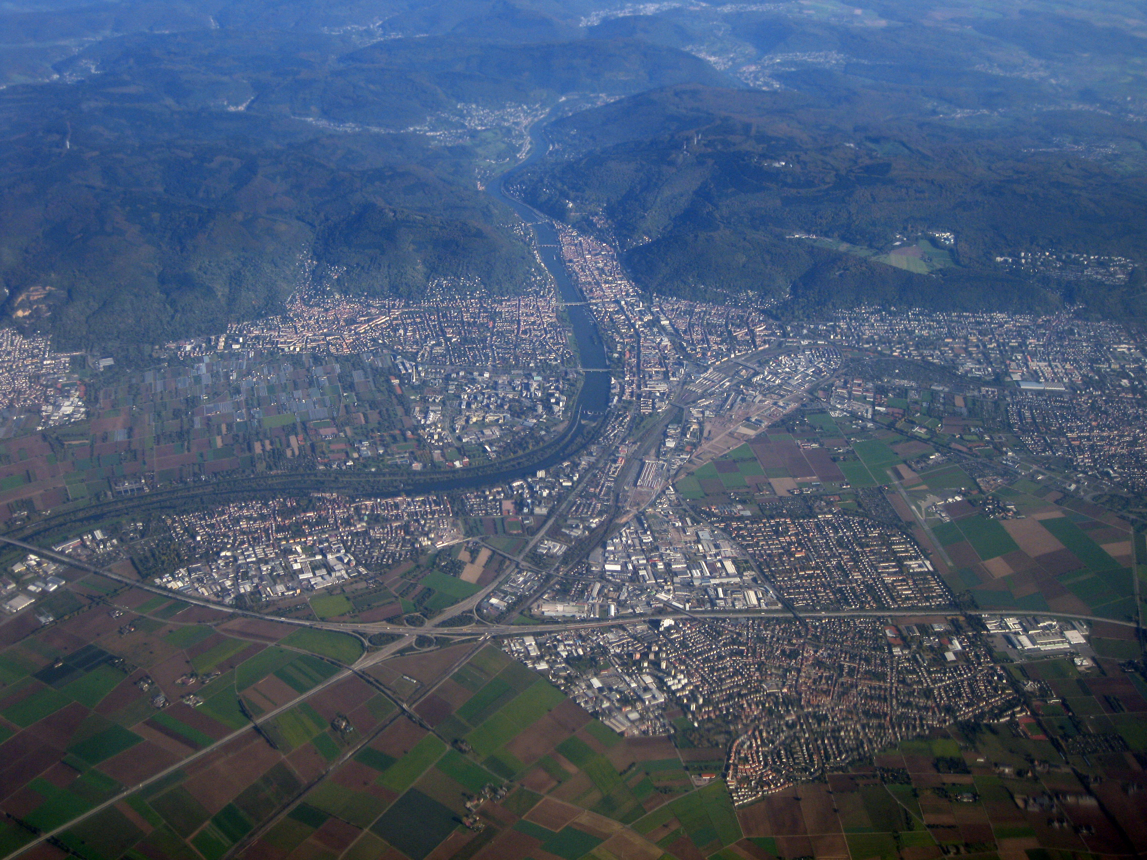 Aerial photography of Heidelberg, from West to East.